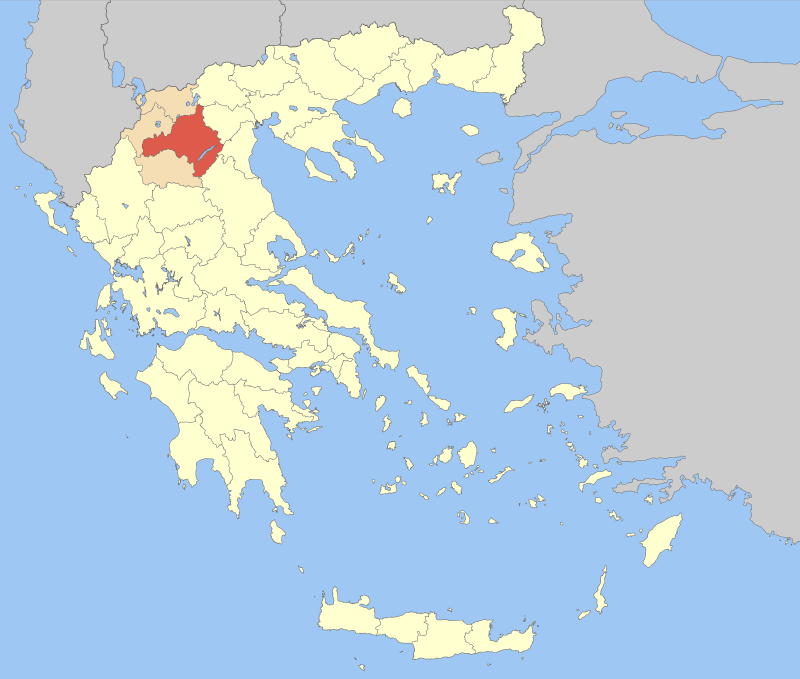 Locator map of Kozani prefecture (Νομός Κοζάνης) in Greece